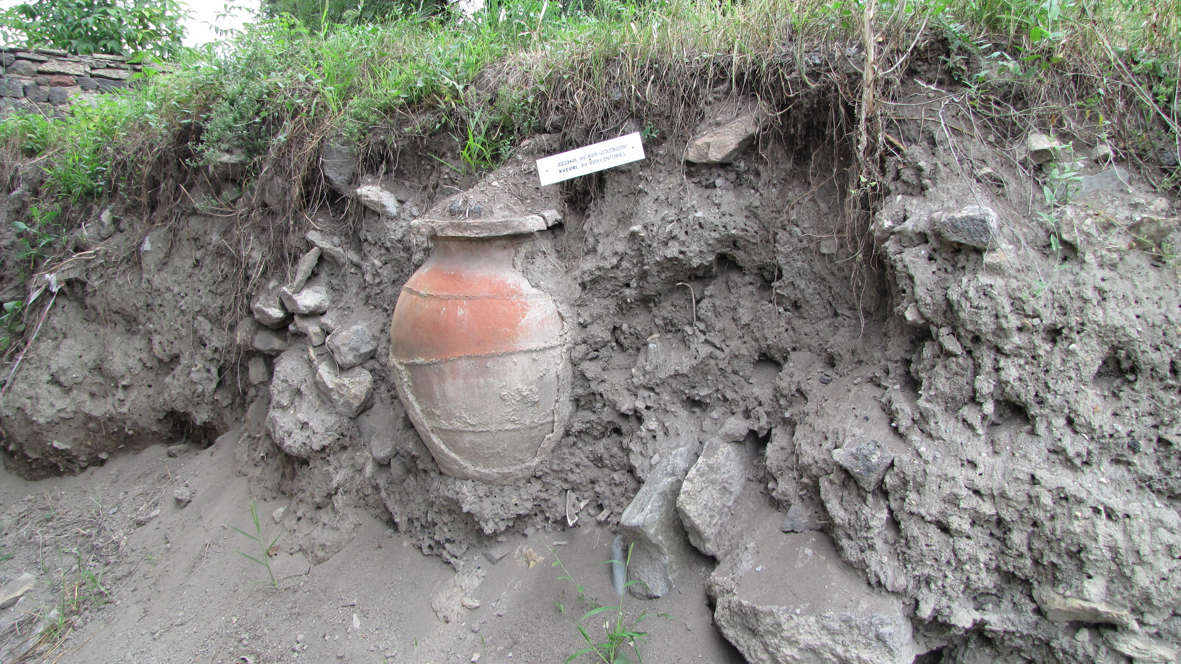 Dmanisi - the medieval village remains near the castle